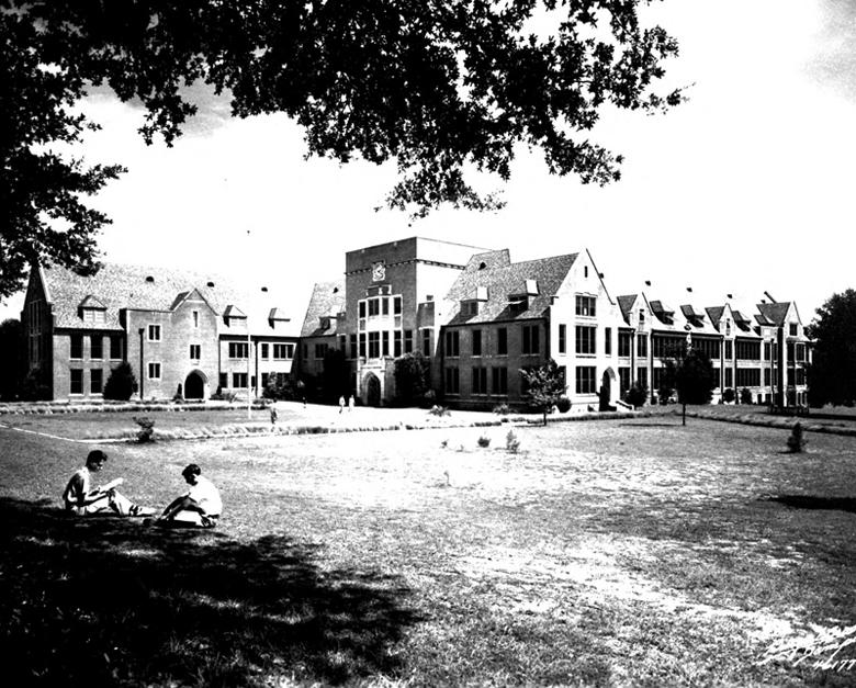 A historic photo of Norman Area